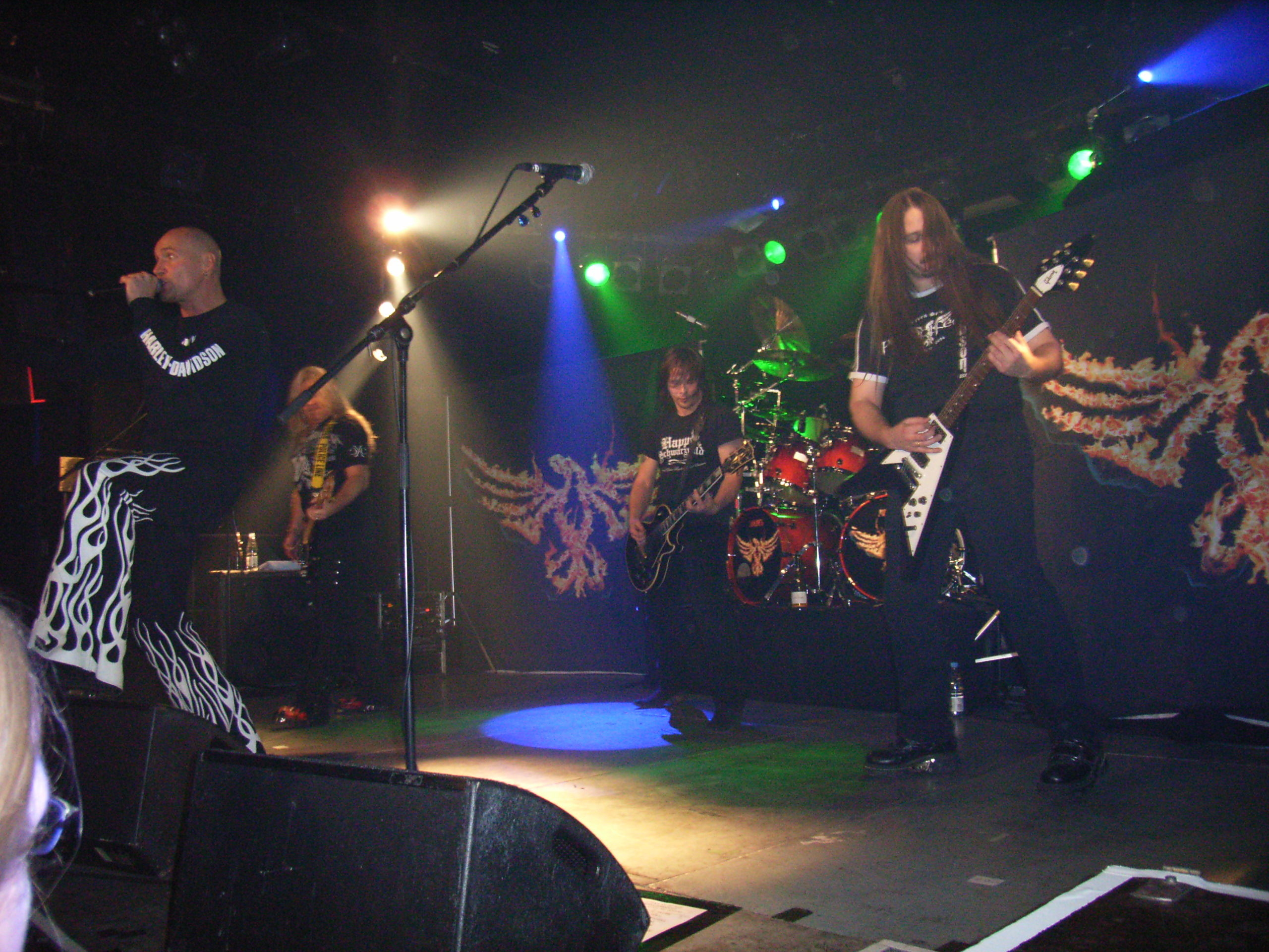 Primal Fear Live at Hirsch in Nuremberg at 2007-12-18